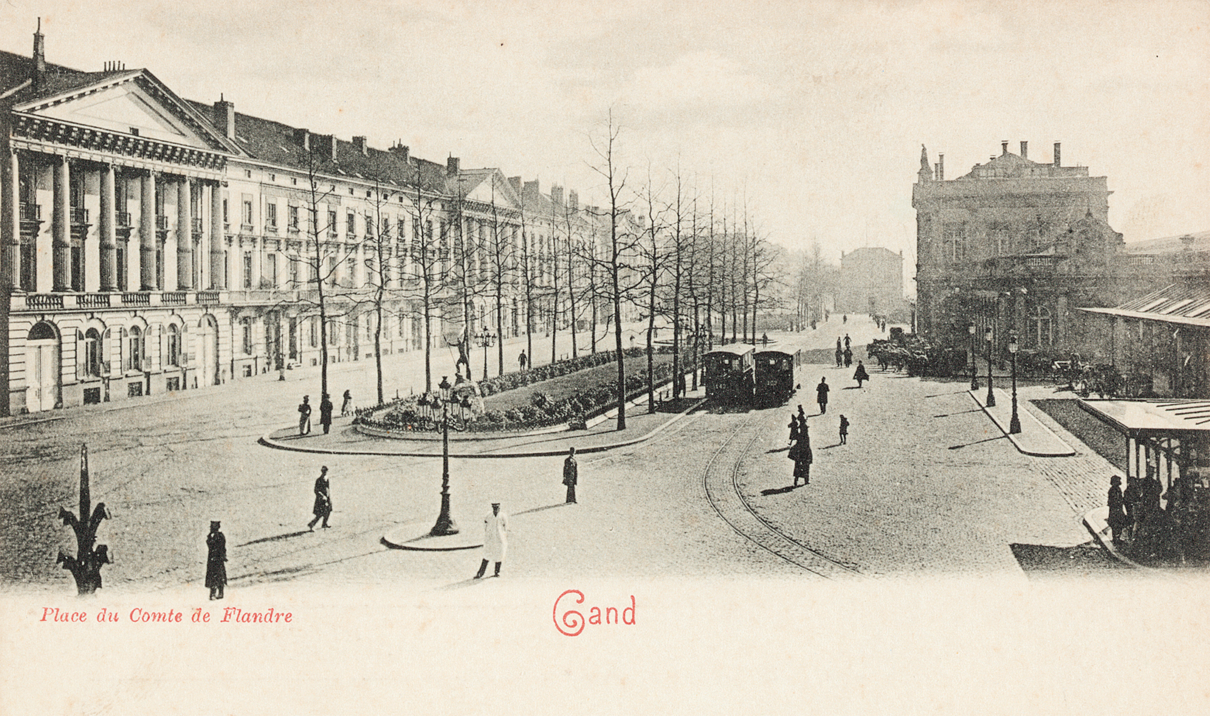 Zuid_1899-1904.jpg